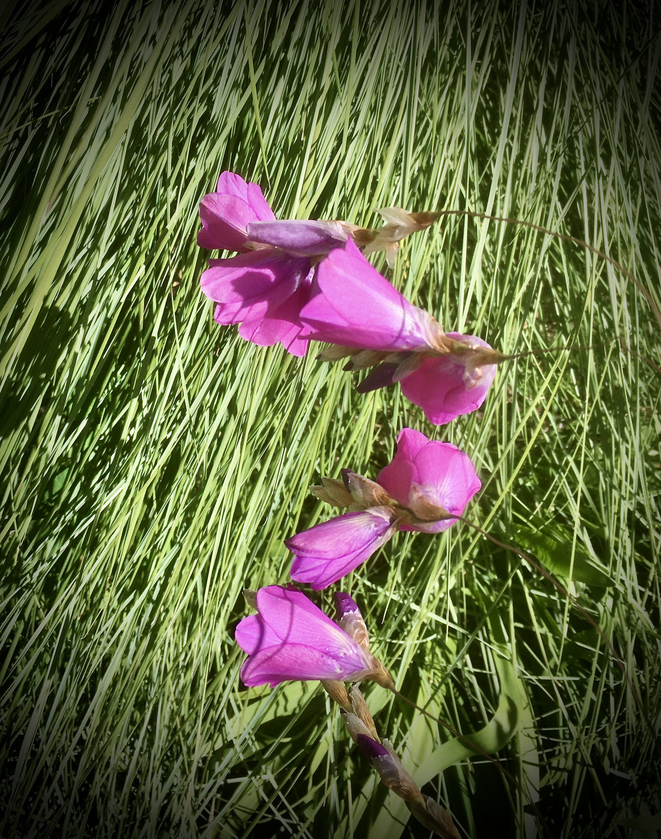 Dierama pulcherrimum, Gamble Garden, Palo Alto